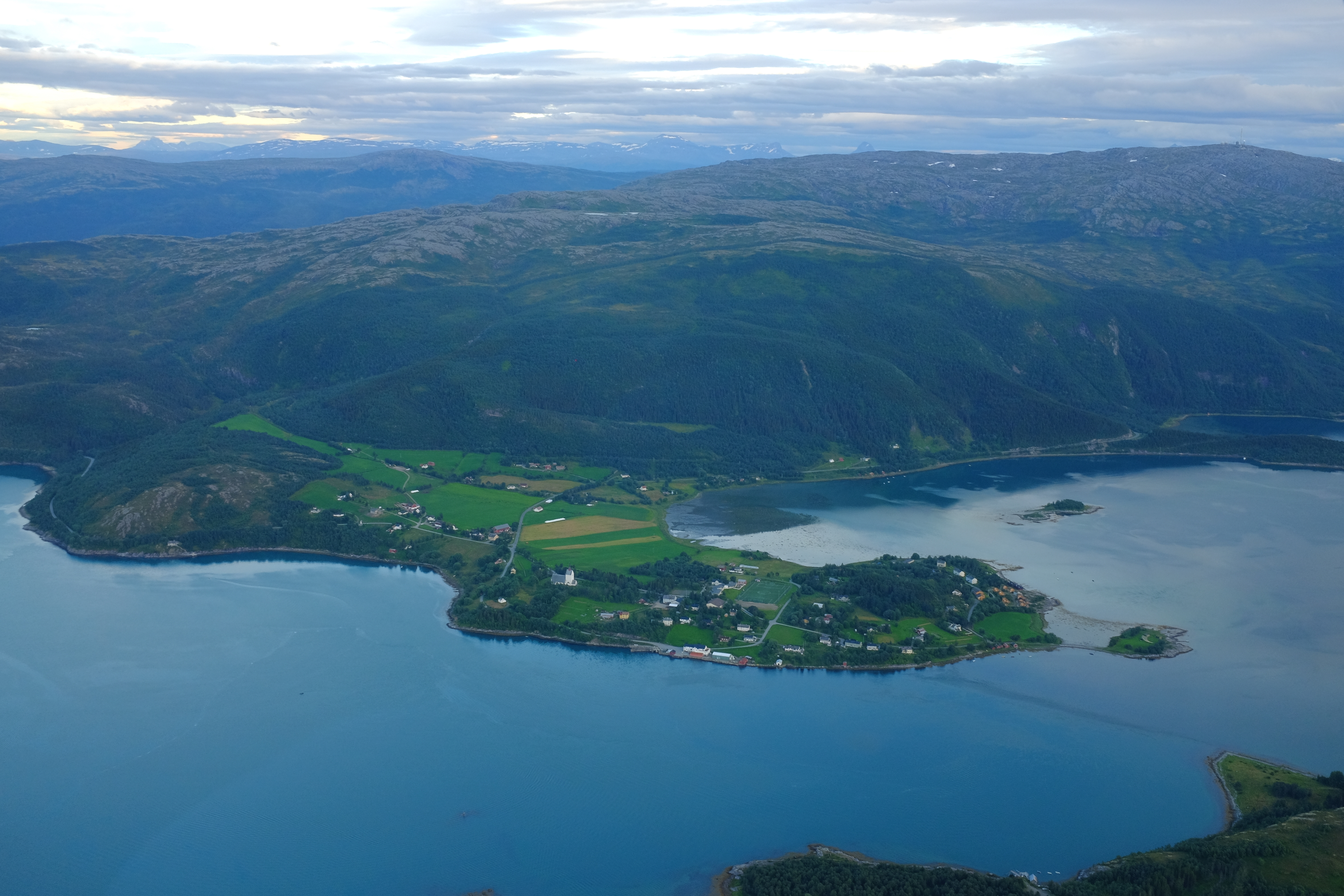 Skjerstad is a geographic area in Bodø municipality in the landscape Salten in Nordland county, Norway. Misværfjorden is a part of Skjerstadfjord.